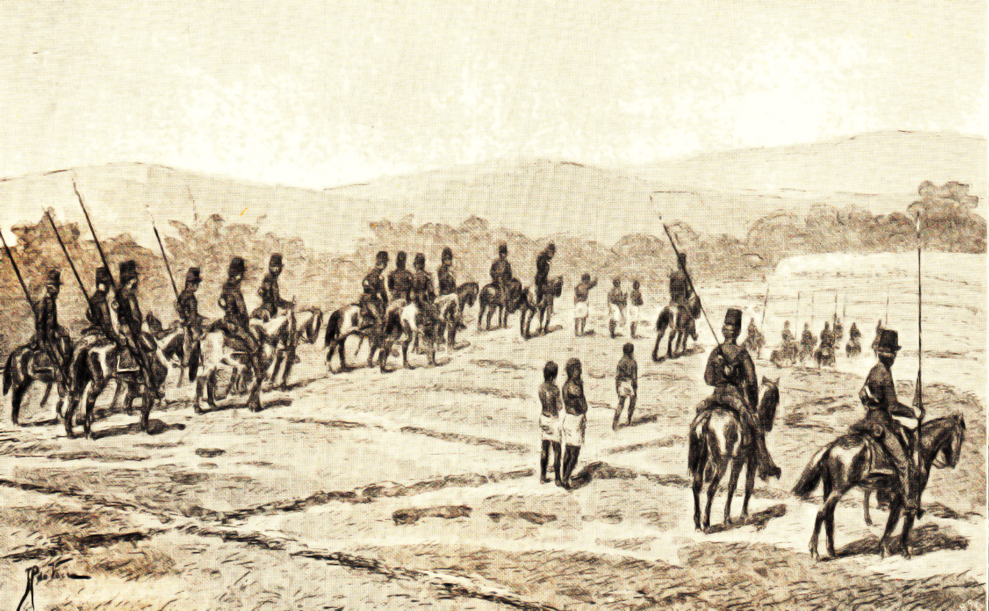 Verkenning van de weg naar Djaga Raga